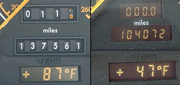 shows the mechanical vs led odometer. Picture by Brian Clifton